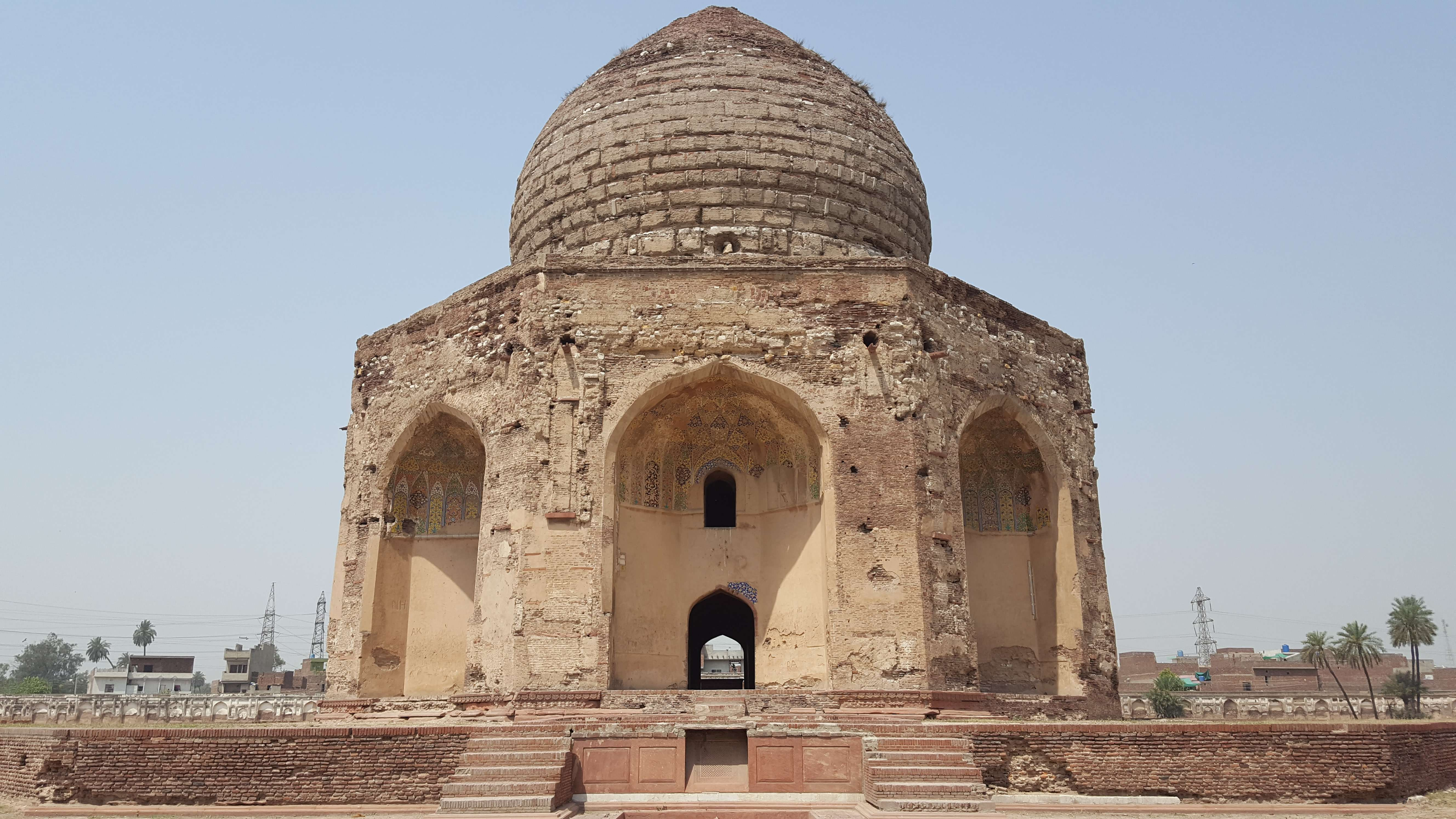 Tomb of Asif Khan This is a photo of a monument in Pakistan identified as the PB-43